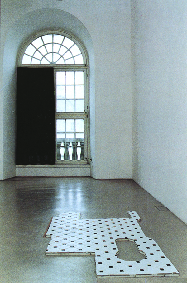 Bathroom Floor (1991), installation view with Untitled (curtain), (1991) at documenta IX, Kassel, Germany, 1992